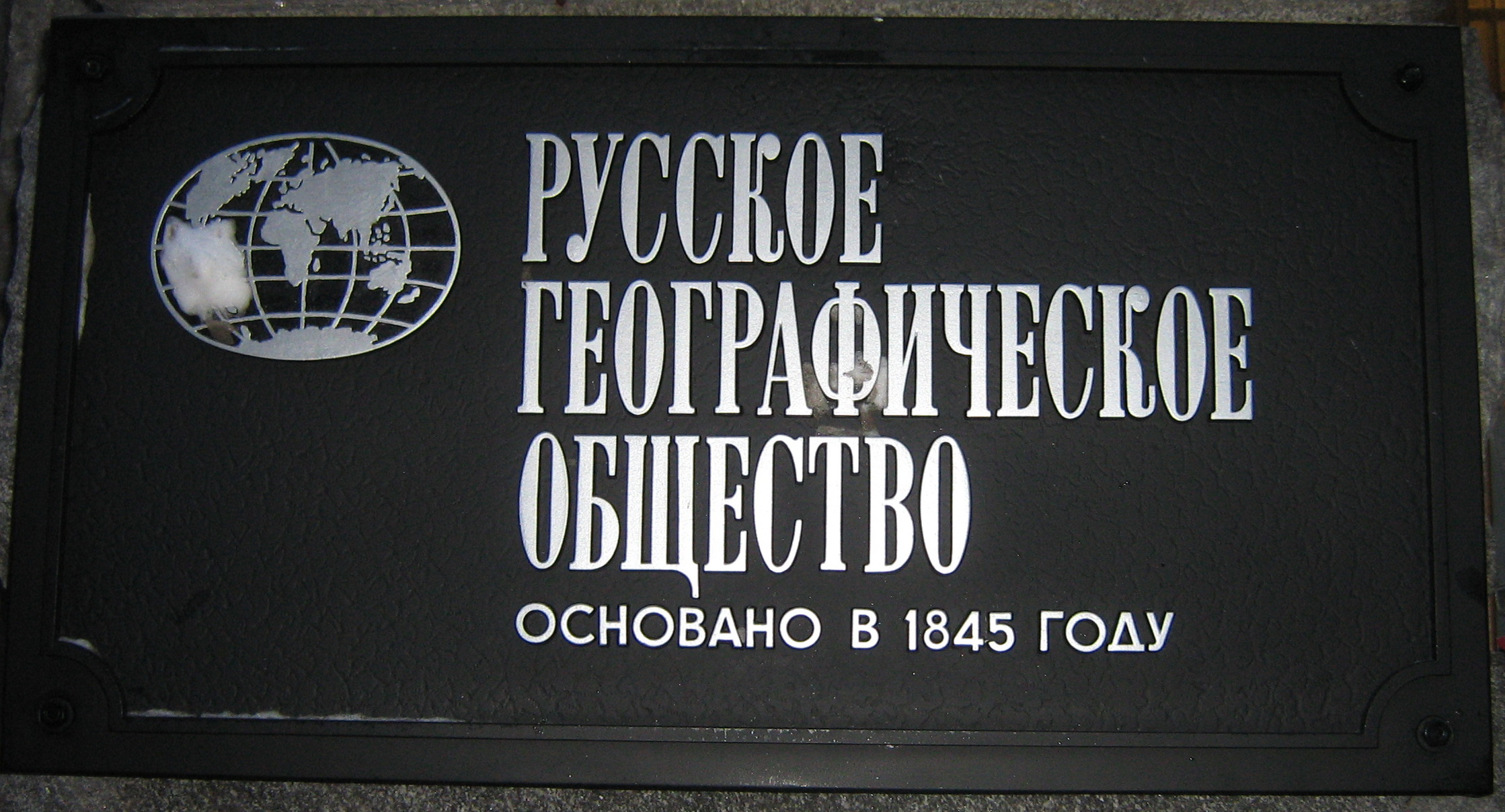 Saint Petersburg (Russia), Russian Geographical Society